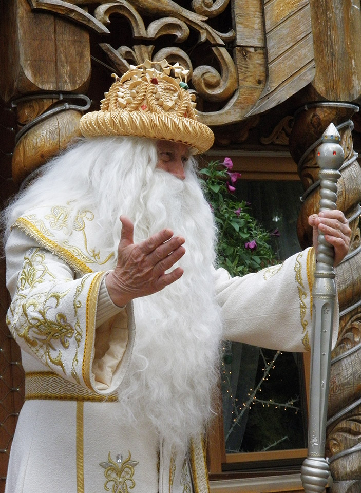 Father Frost of Belarus in Belovezhskaya Pushcha, in autumn